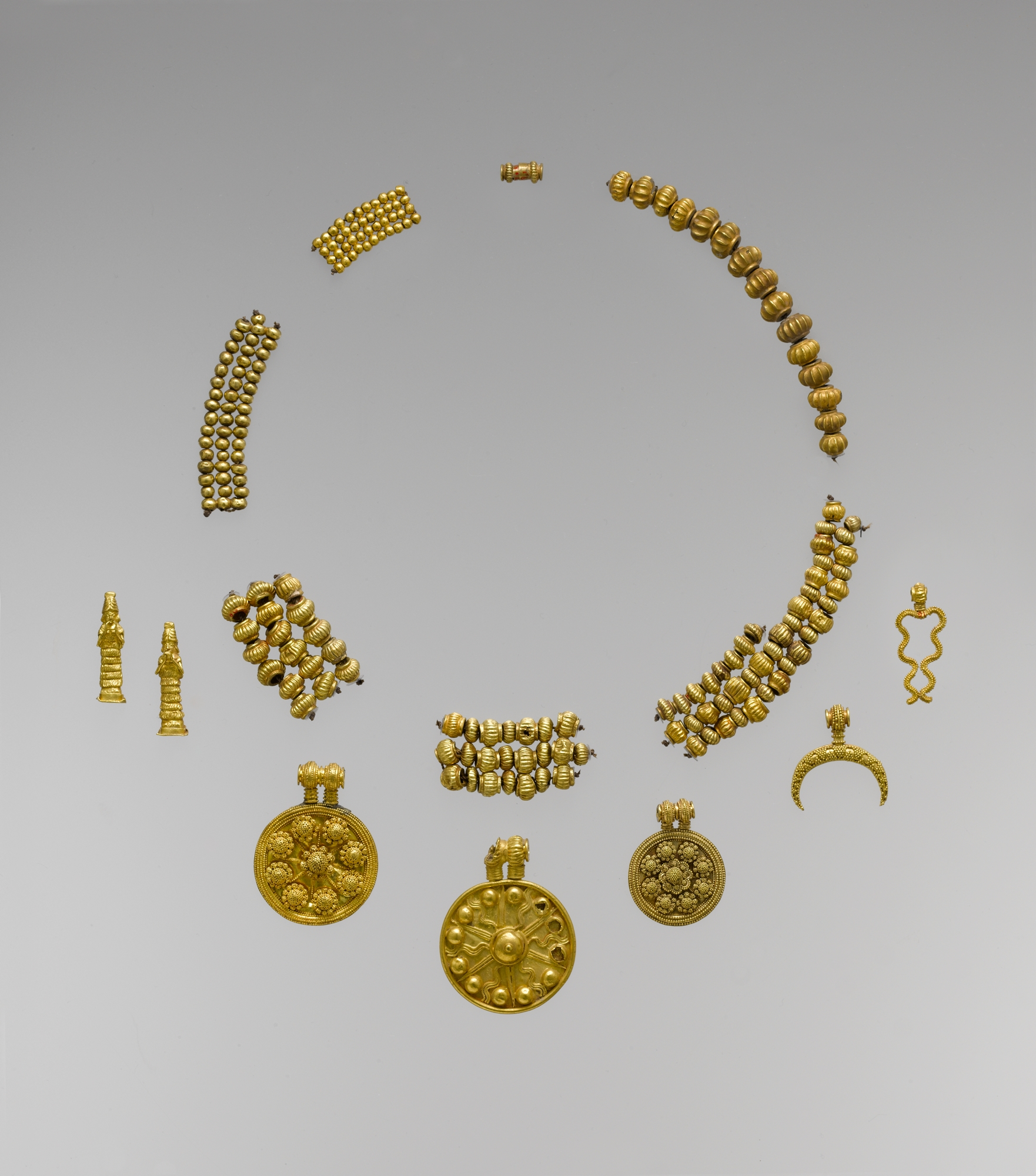 Gold pendants and beads found in the so-called "Dilbat Hoard", bought in the beginning of the 20th century, and said to come from Tell al-Deylam (ancient Dilbat in Babylonia). The two female figures probably represent the protective goddess called Lama; the disk is the symbol for the sun-god Shamash; the forked lightning is the symbol for Adad, the storm god ; the two disks with rosettes may be symbols of Ishtar, the planet Venus, goddess of love and war. The objects may have been worn by a priest or the cultic statue of a god. Description